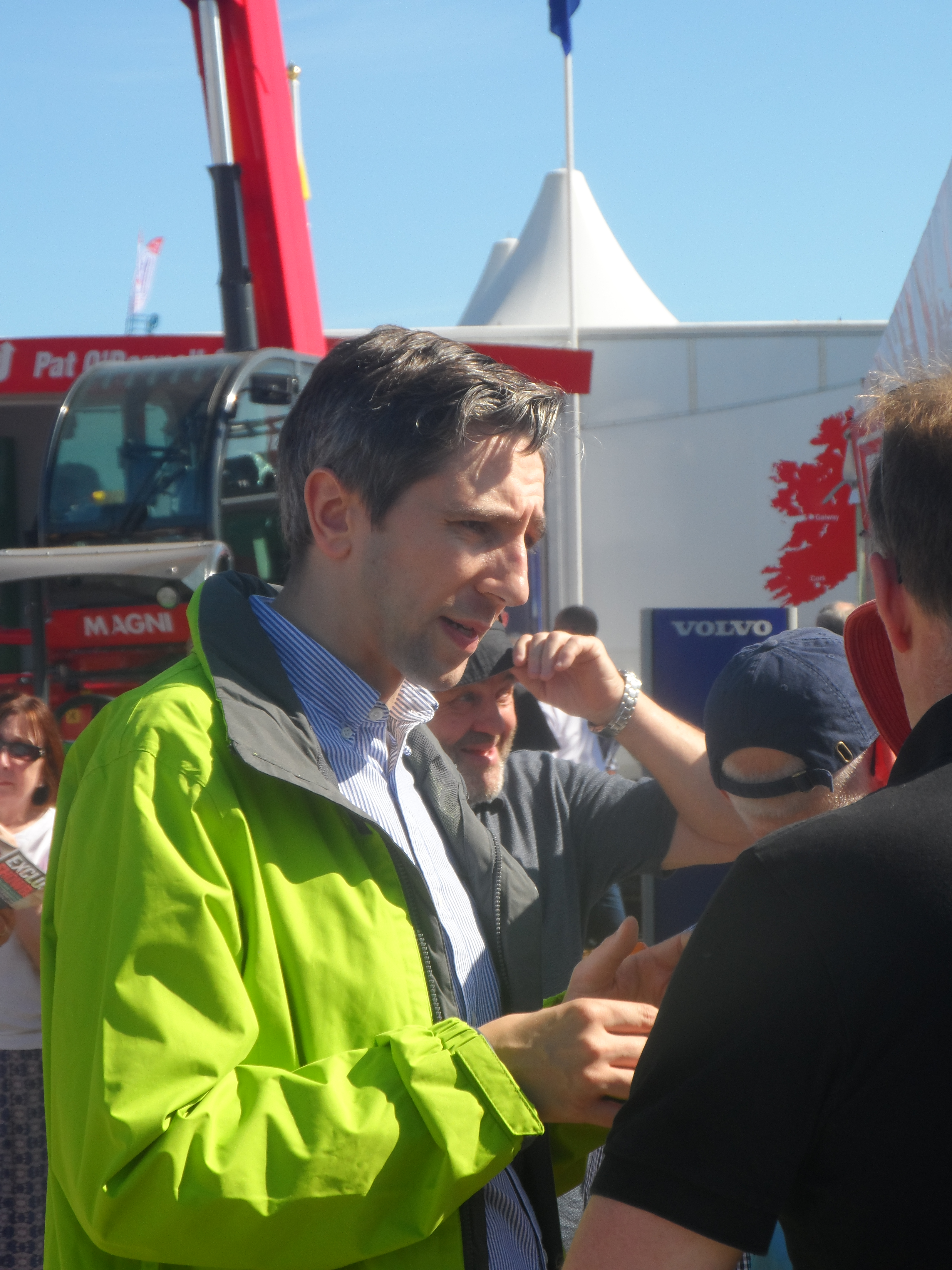 Simon Harris